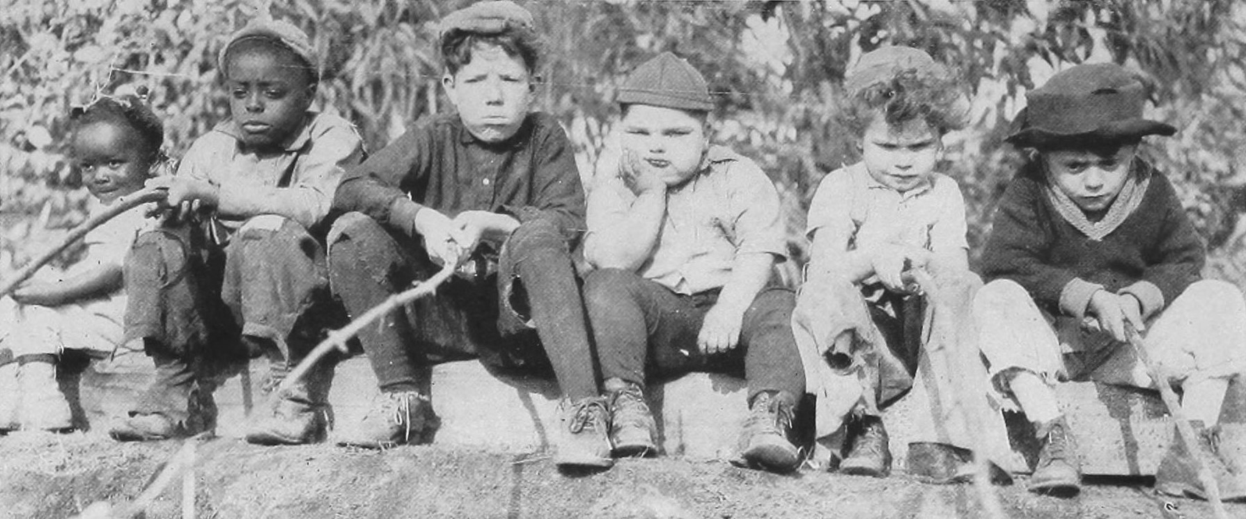 The gang in Cradle Robbers